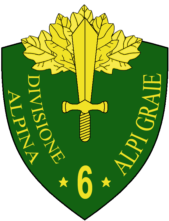 6th Italian Alpine Division "Alpi Graie" Coat of Arms (WWII)